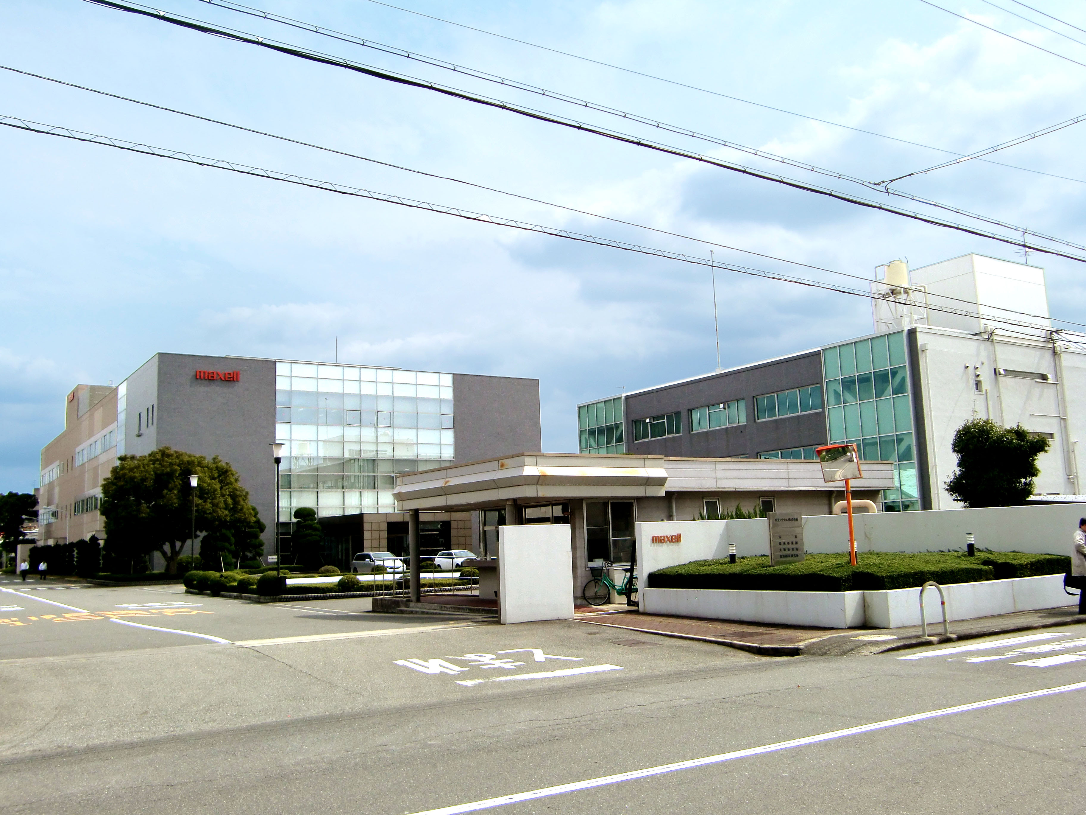 Hitachi Maxell Head Office,1-1-88 Ushitora Ibaraki-City Osaka Japan.